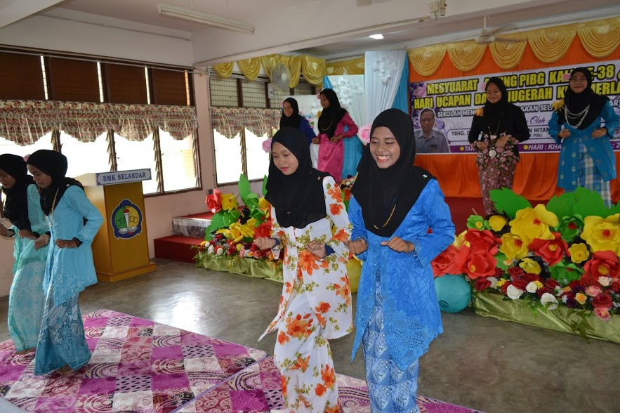 GAMBAR 18